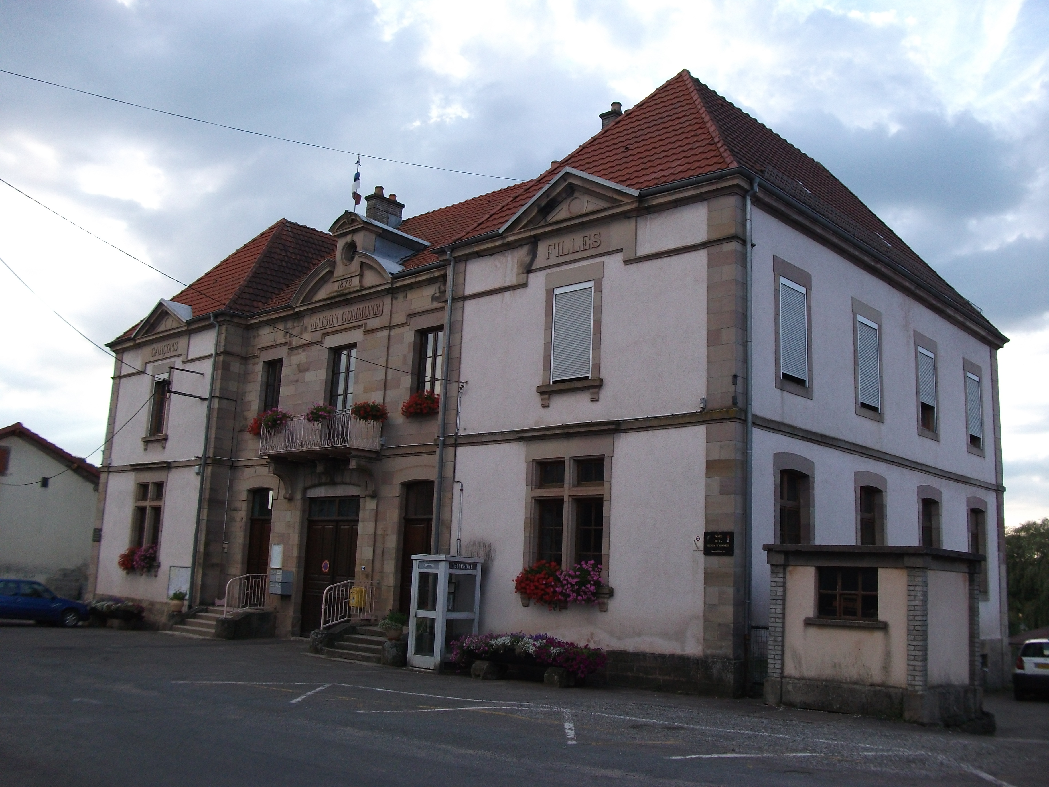 Etobon town hall, Haute-Saône, France